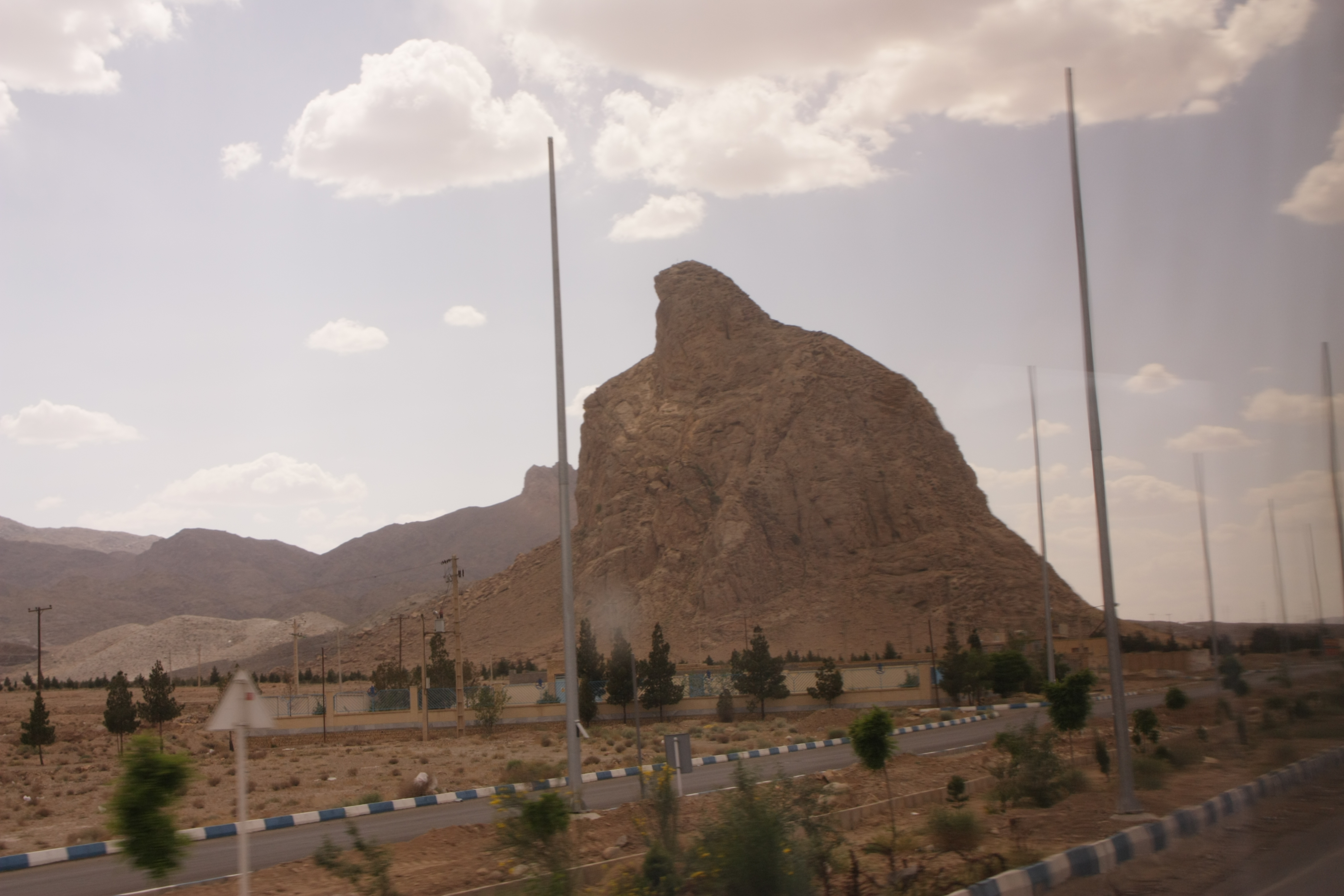 Called "Oghab Kooh", is located about 45 kilometers from Yazd, near the town of Taft.